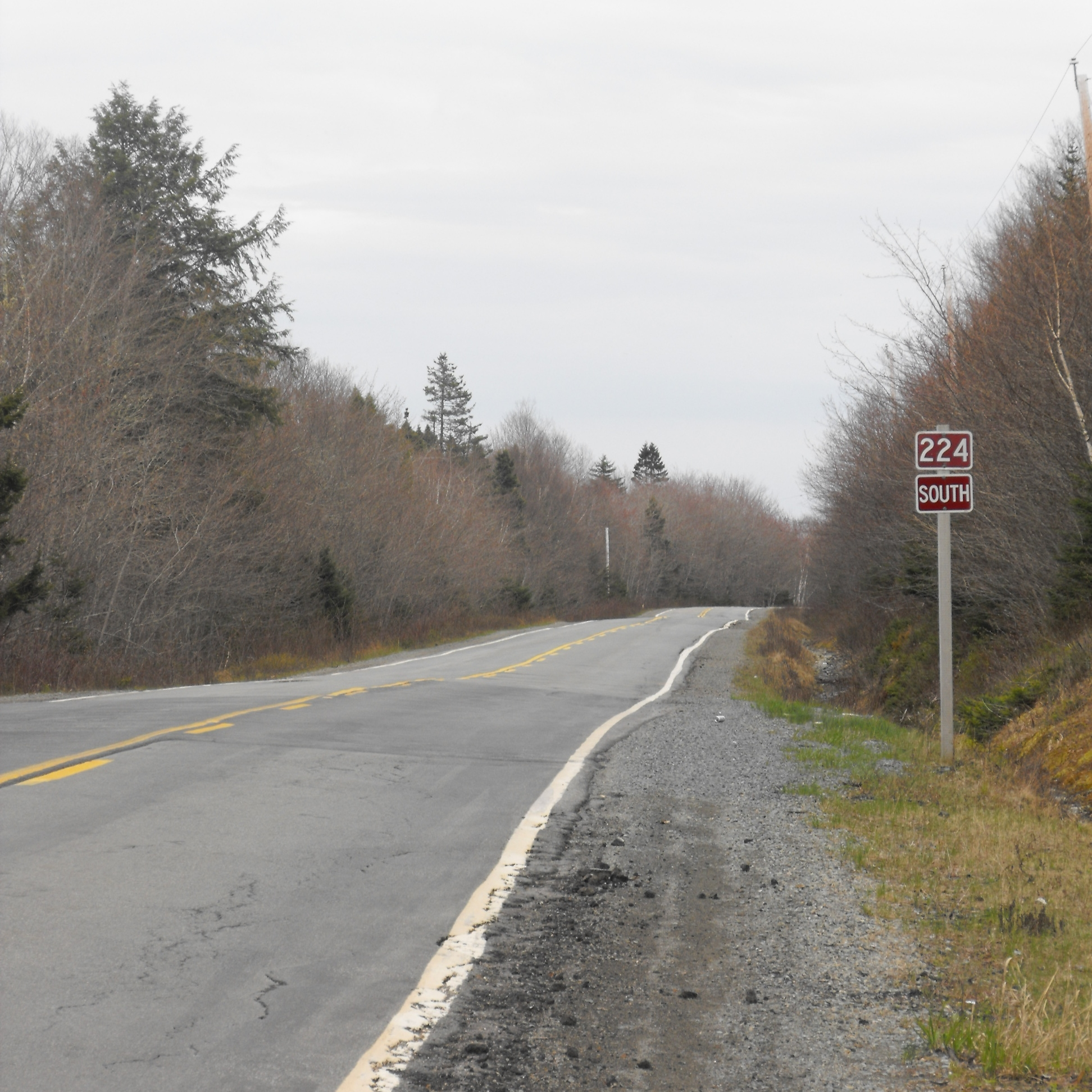 Roadside, Nova Scotia Route 224, Halifax Regional Municipality